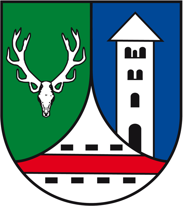 Coat of arms of Hirschfeld